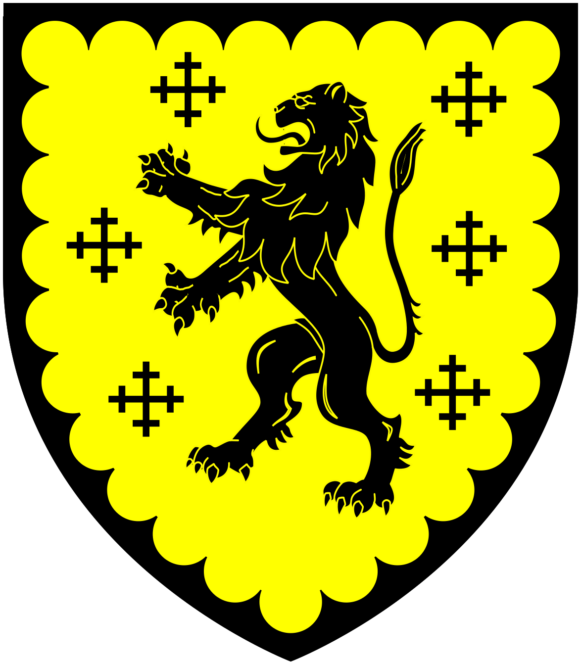 Arms of Adams of Townstal (anciently Tunstall, etc.), near Dartmouth, Devon: Or, a lion rampant between six crosses crosslet within a bordure engrailed sable (Vivian, Heraldic Visitations of Devon, 1895, p.9)